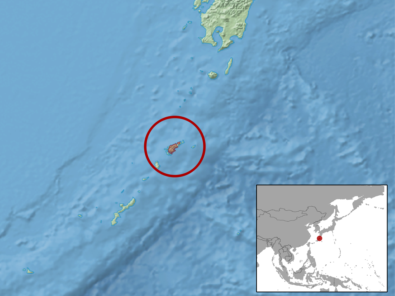 geographic distribution of Tokudaia osimensis